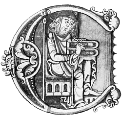 Anicius Manlius Severinus Boethius[1] (480–524 or 525) was a Christian philosopher of the 6th century.